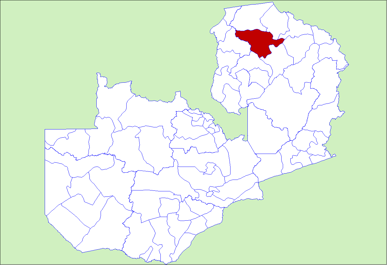 District locator in Zambia